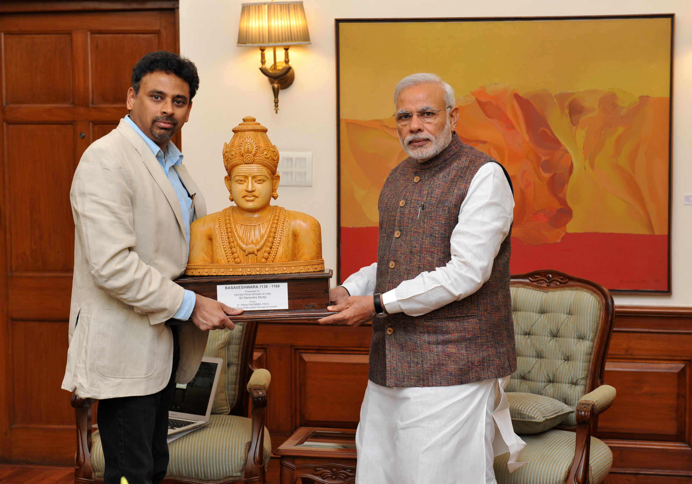 Hon Prime Minister of India Narendra Modi congratulated Dr Neeraj Patil on 24th March 2015 for securing a planning permission from British Government to erect the statue of Basaveshwara in the back drop of Westminister Parliament